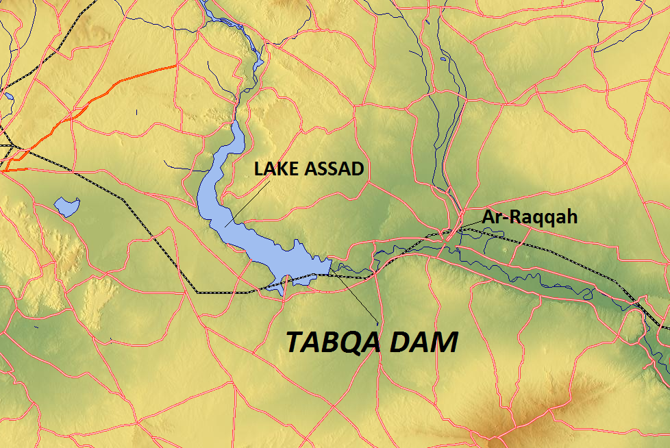 Tabqa Dam: Lake Assad and Ar-Raqqah city, Syria